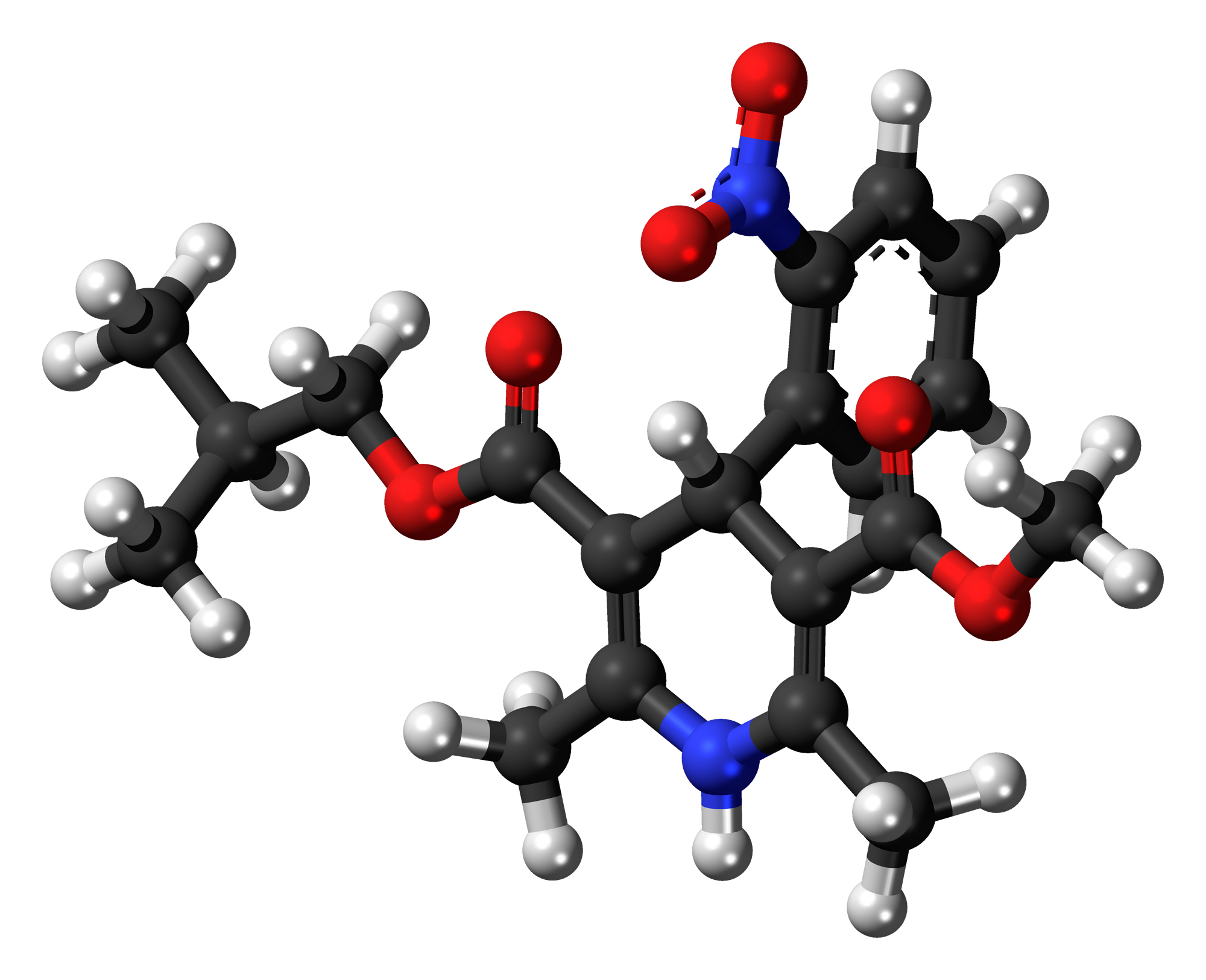 Ball-and-stick model of the nisoldipine molecule, a calcium channel blocker. Colour code: Carbon, C: black Hydrogen, H: white Oxygen, O: red Nitrogen, N: blue